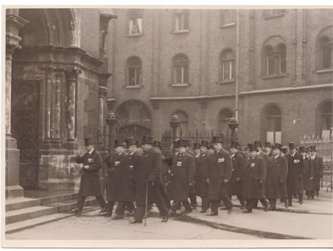 Description:Jewish war veterans entering synagogue for service to honor the war dead; Munich Creator/Photographer: Unknown Medium: Photograph Date: 1935 Persistent URL: Repository:Leo Baeck Institute Parent Collection: Ludwig Feuchtwanger Collection Call Number: AR 6001 Rights Information: No known copyright restrictions; may be subject to third party rights. For more copyright information, click here. See more information about this image and others at CJH Digital Collections.